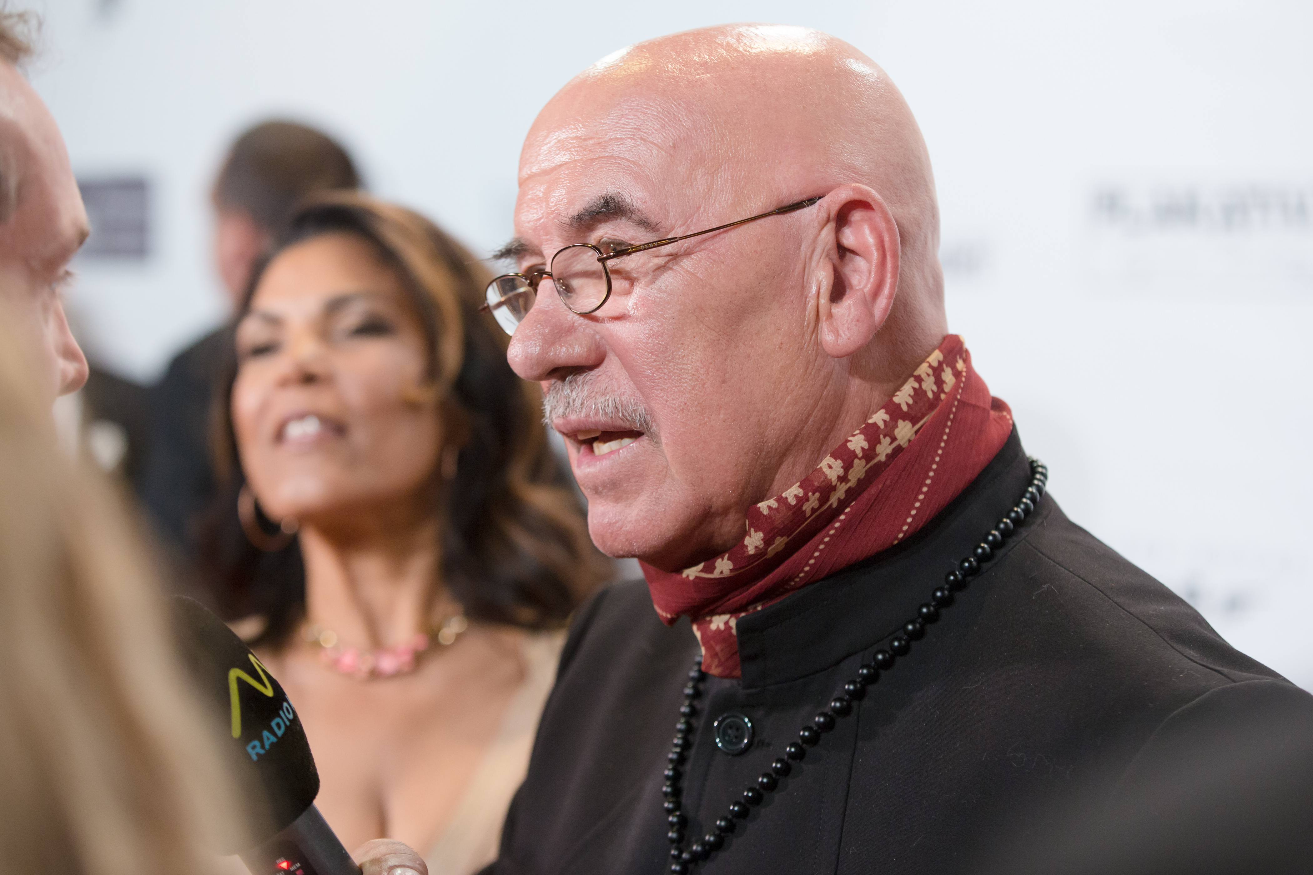 Otto Retzer on the red carpet of the Filmball Vienna 2016 at Rathaus, Vienna, Austria.